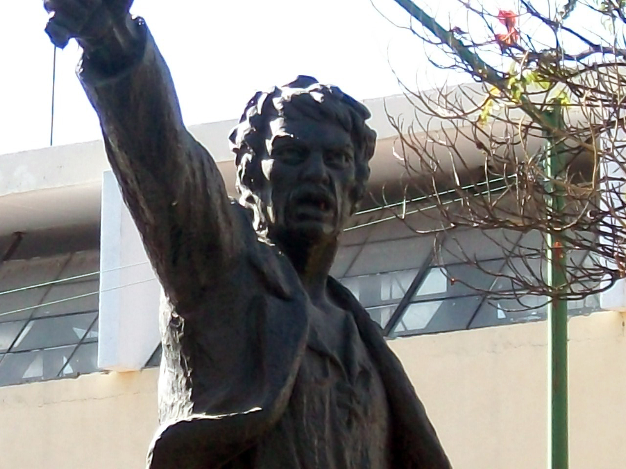 José Antonio Torres´ statue in Guadalajara, Jalisco, Mexico.